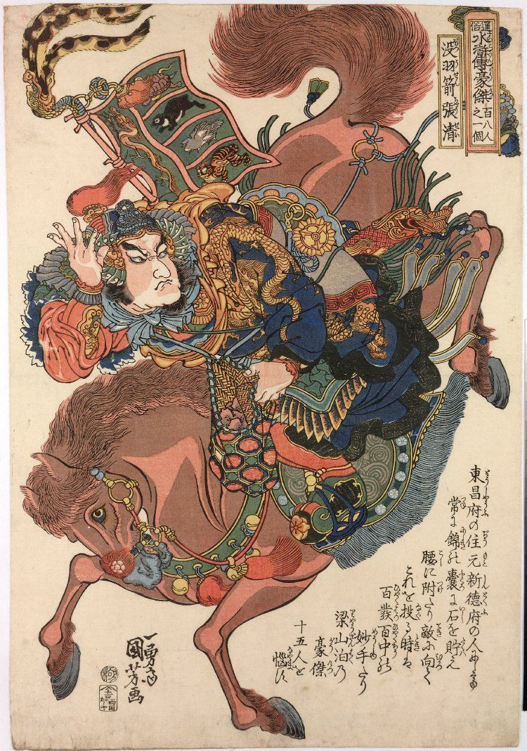 Zhang Qing (張清) on a bucking horse, throwing stones.